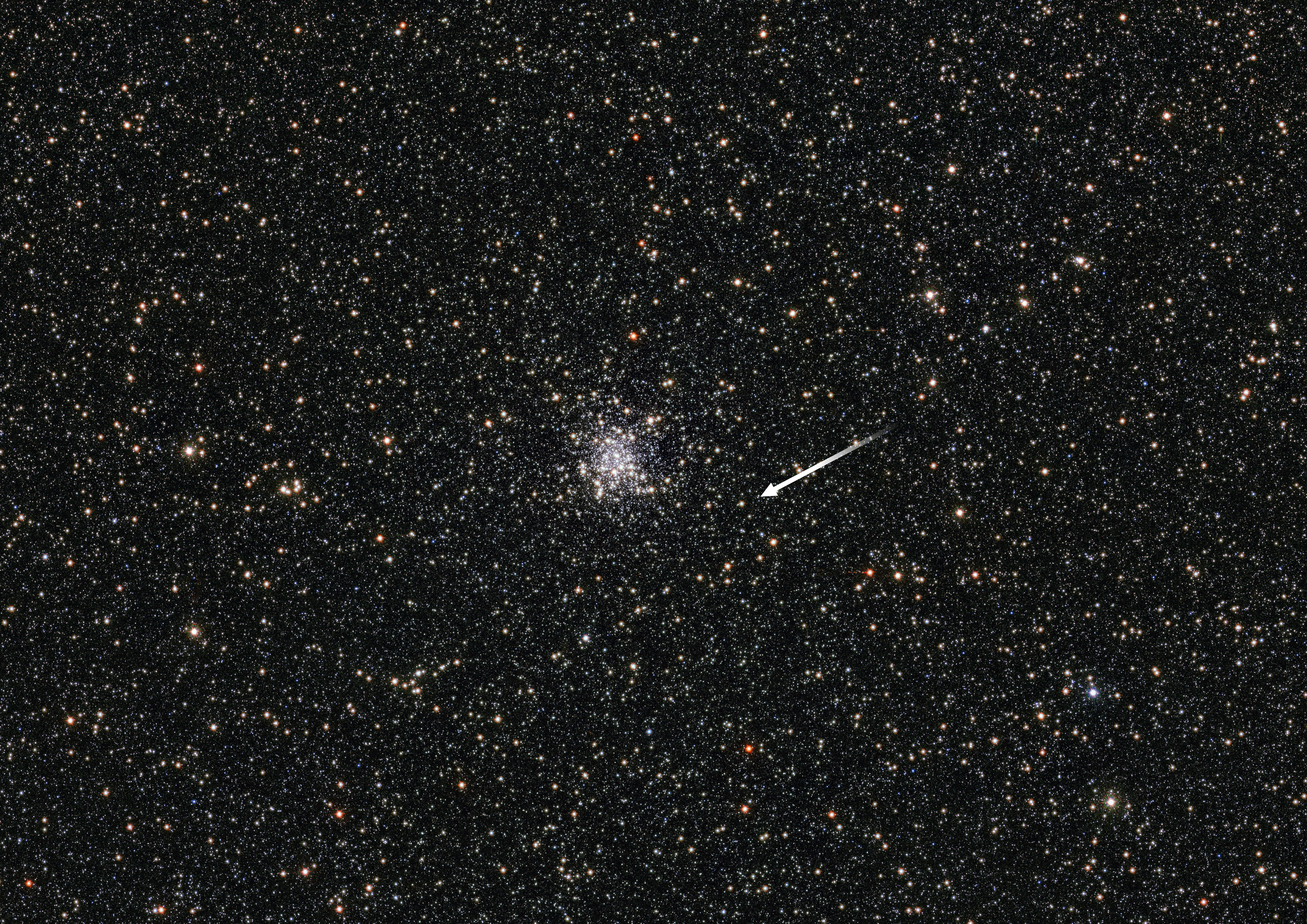 This spectacular starry field of view shows the globular cluster NGC 6553 which is located approximately 19 000 light-years away in the constellation of Sagittarius. In this field, astronomers discovered a mysterious microlensing event. Microlensing is a form of gravitational lensing in which the light from a background source is bent by the gravitational field of a foreground object, creating an amplified image of the background object. The object causing the microlensing in NGC 6553 bent the light of a red giant star in the background (marked with an arrow). If this object lies in the cluster — something the scientists believe might only have a 50/50 chance of being correct — the object could be a black hole with a mass twice that of the Sun, making it the first of its kind to be discovered in a globular cluster. It would also be the oldest known stellar-mass black hole ever discovered. However, further observations are needed to determine the true nature of this lensing object for sure. This cosmological curiosity was detected by ESO's VISTA telescope at the Paranal Observatory in Chile as part of the VISTA Variables in the Vıa Lactea Survey (VVV) — a near-infrared survey aimed at scanning the central parts of the Milky Way.